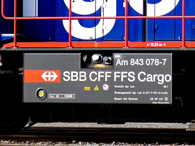 SBB-CFF-FFS Am 843 (G 1700-2 BB) shunting in Biel